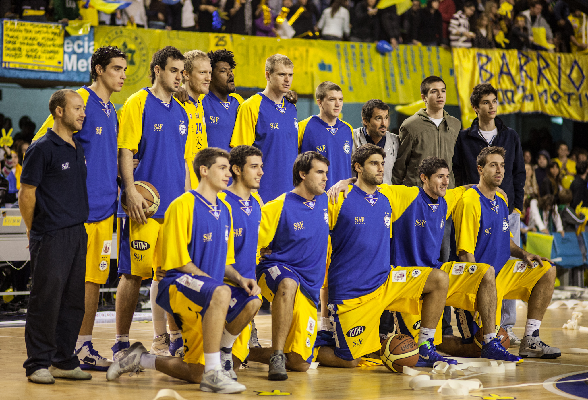 Hebraica y Macabi team before the final playoff game against Malvin for the LUB trophy, at Palacio Peñarol.